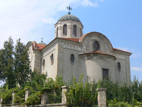 Church "St Archangel Michail" in the town of Strelcha, Bulgaria.